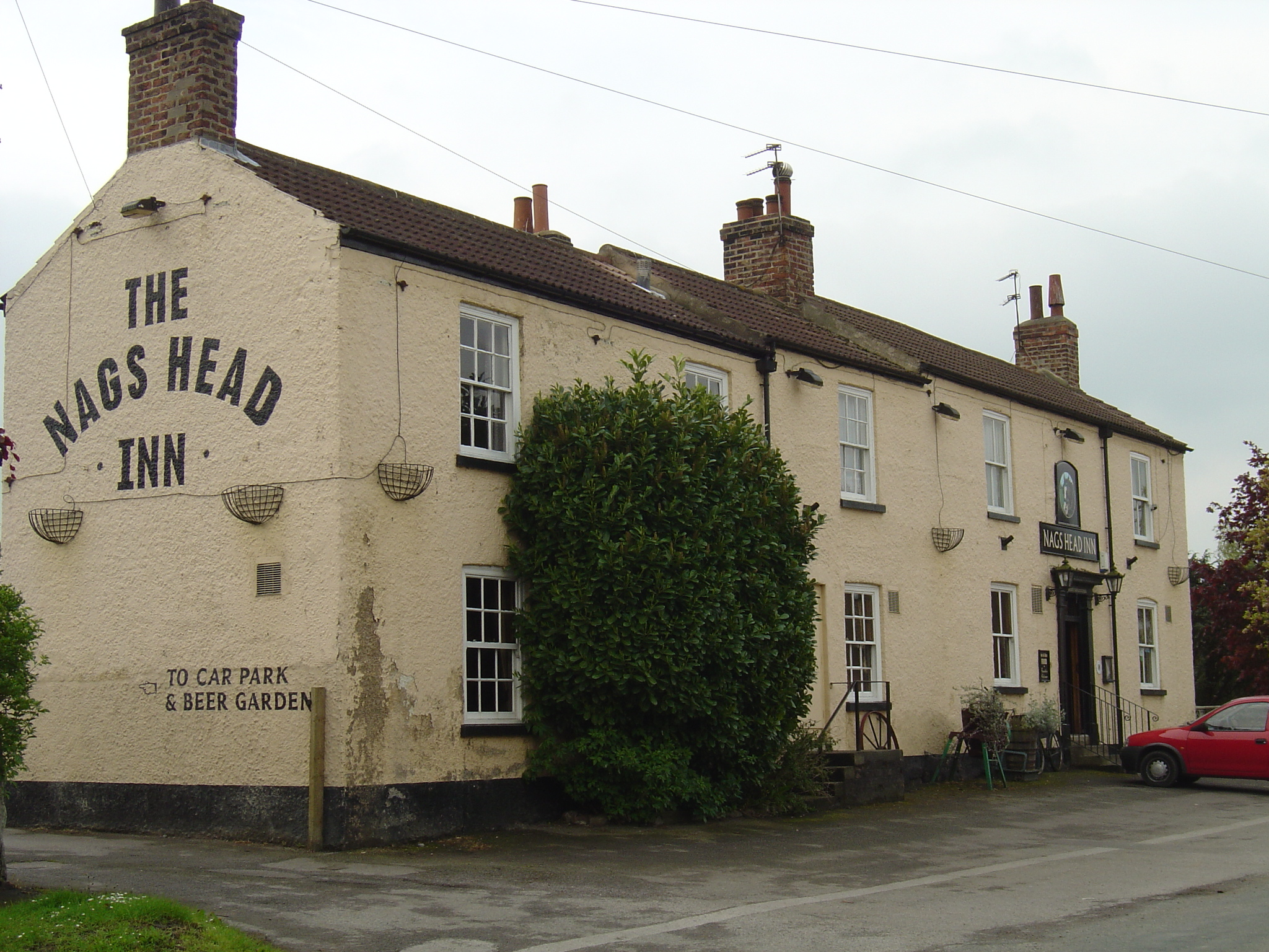 The Nags Head Pub in the village of Askham Bryan, North Yorkshire, UK